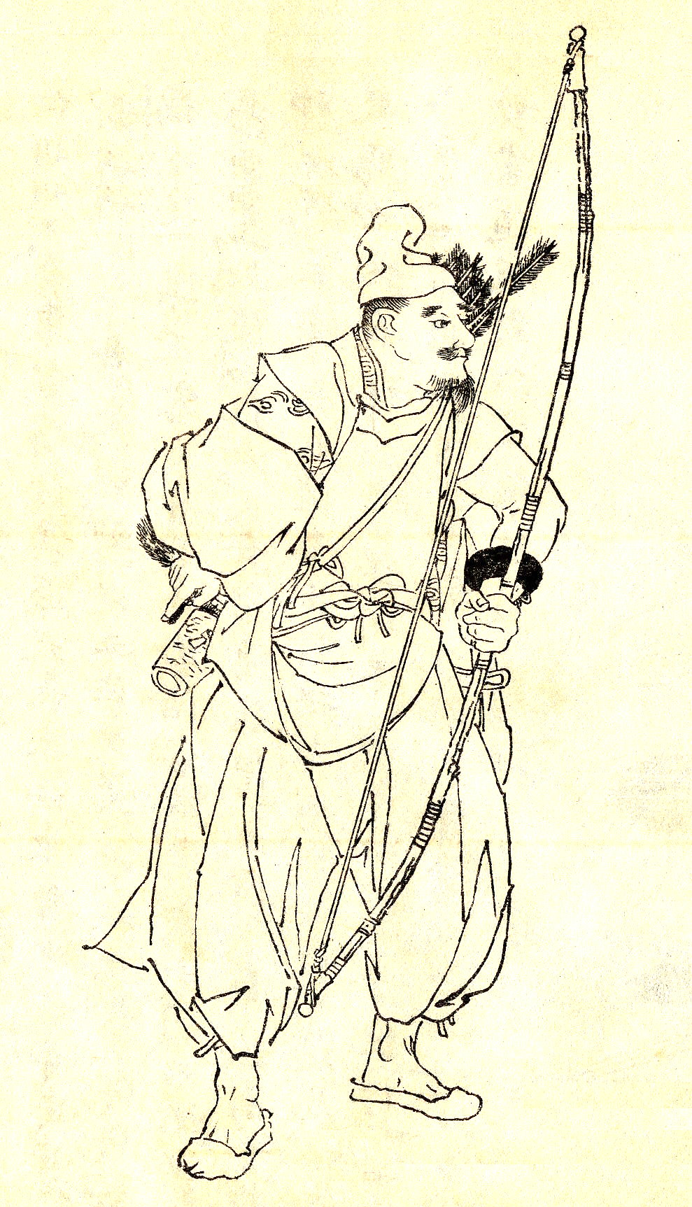 Sakanoue no Kiyono(坂上浄野) was a Japanese officer in Heian Period.